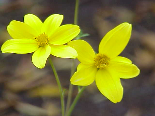 Species: Bidens ferulifolia Family: Asteraceae Image No. 1